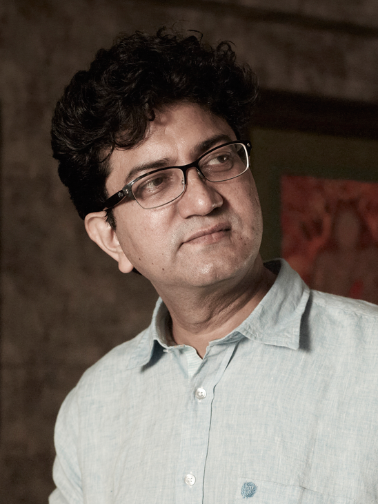 Picture of Indian writer, poet and Ad-Guru Prasoon Joshi.